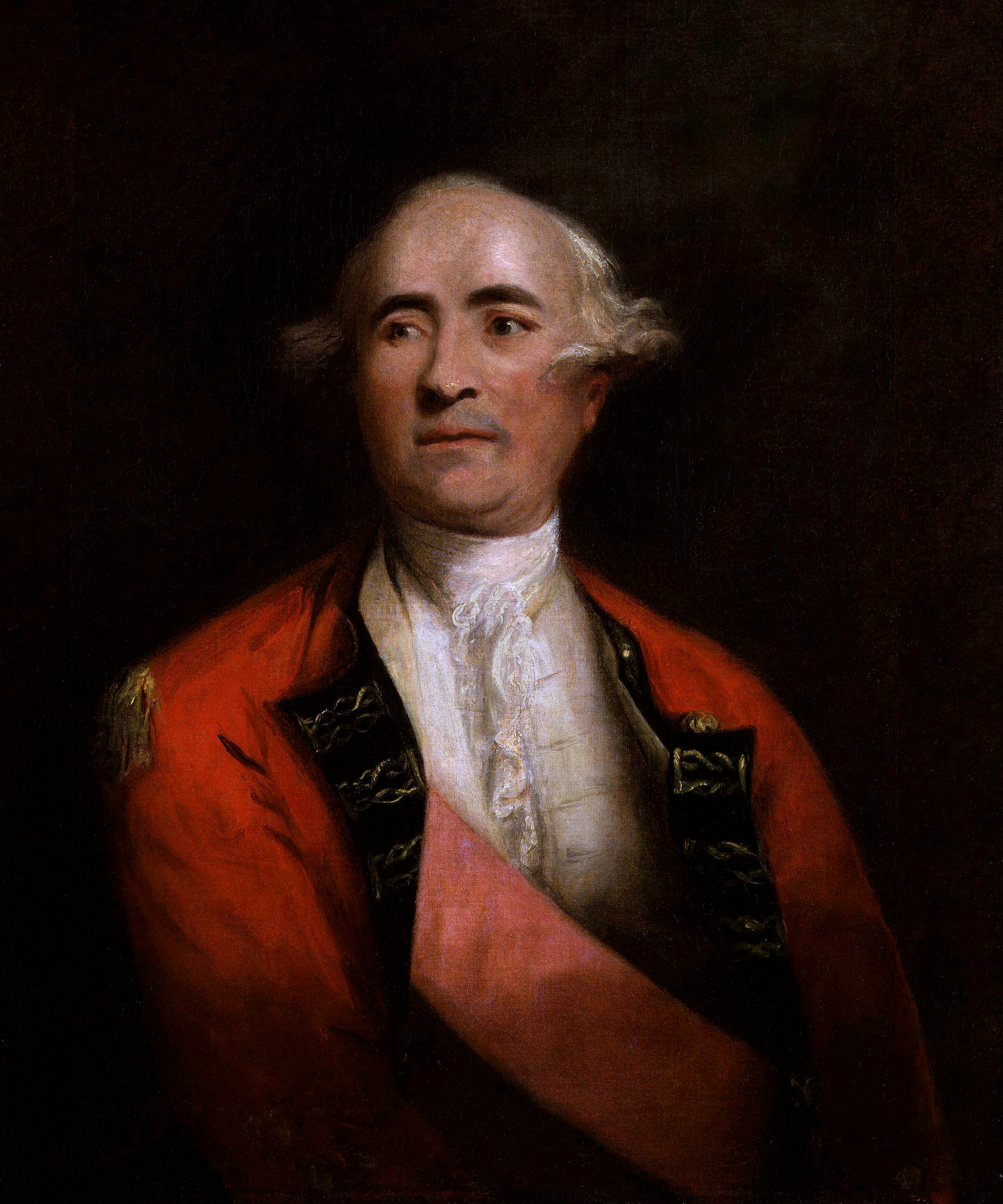 Portrait of British General Frederick Haldimand. See source for additional information.